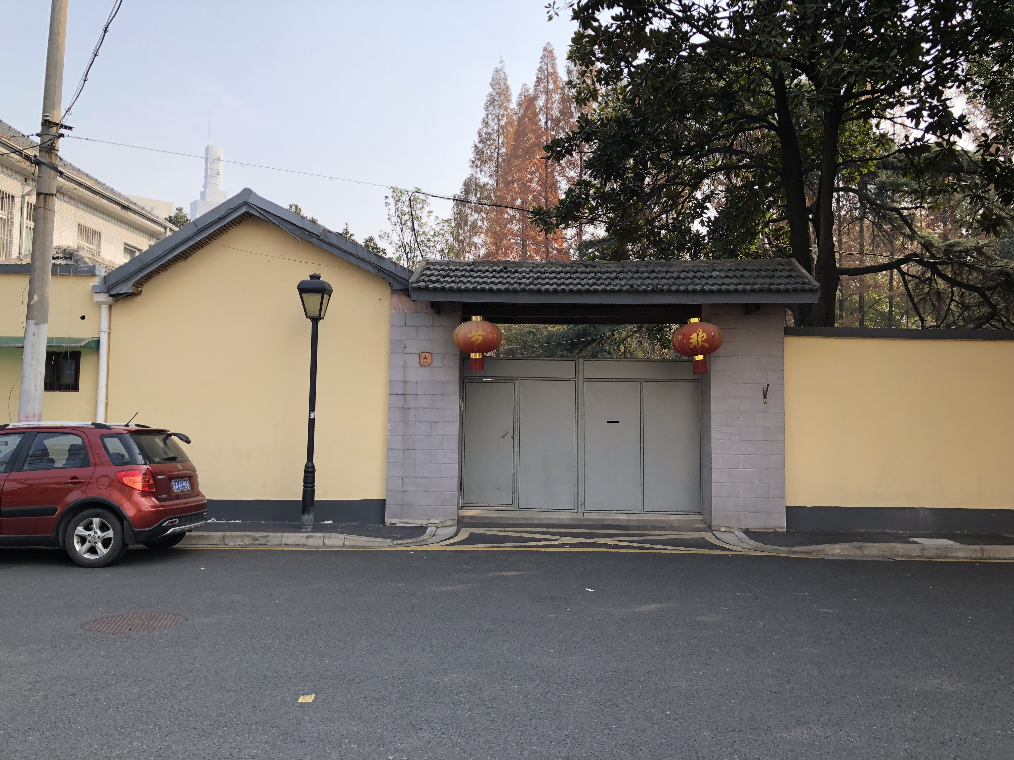 天竺路3号 大门